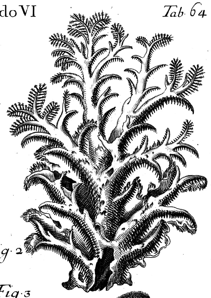 Hericium coralloides as depicted by P.A. Micheli in 1729.